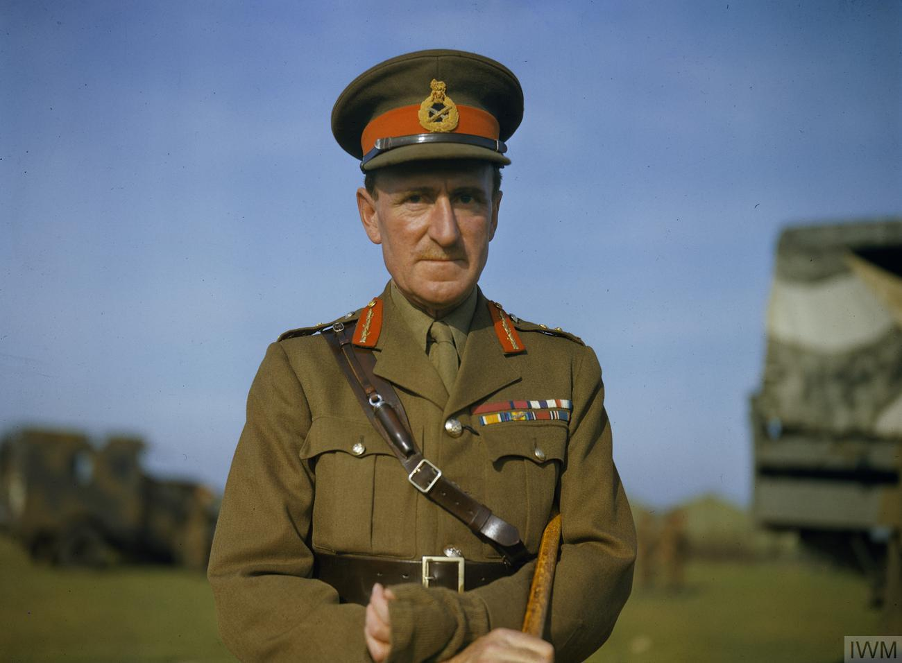 The Commander in Chief Home Forces, General Sir Bernard Paget, October 1942 Half length portrait of General Sir Bernard Paget, Commander in Chief, Home Forces.